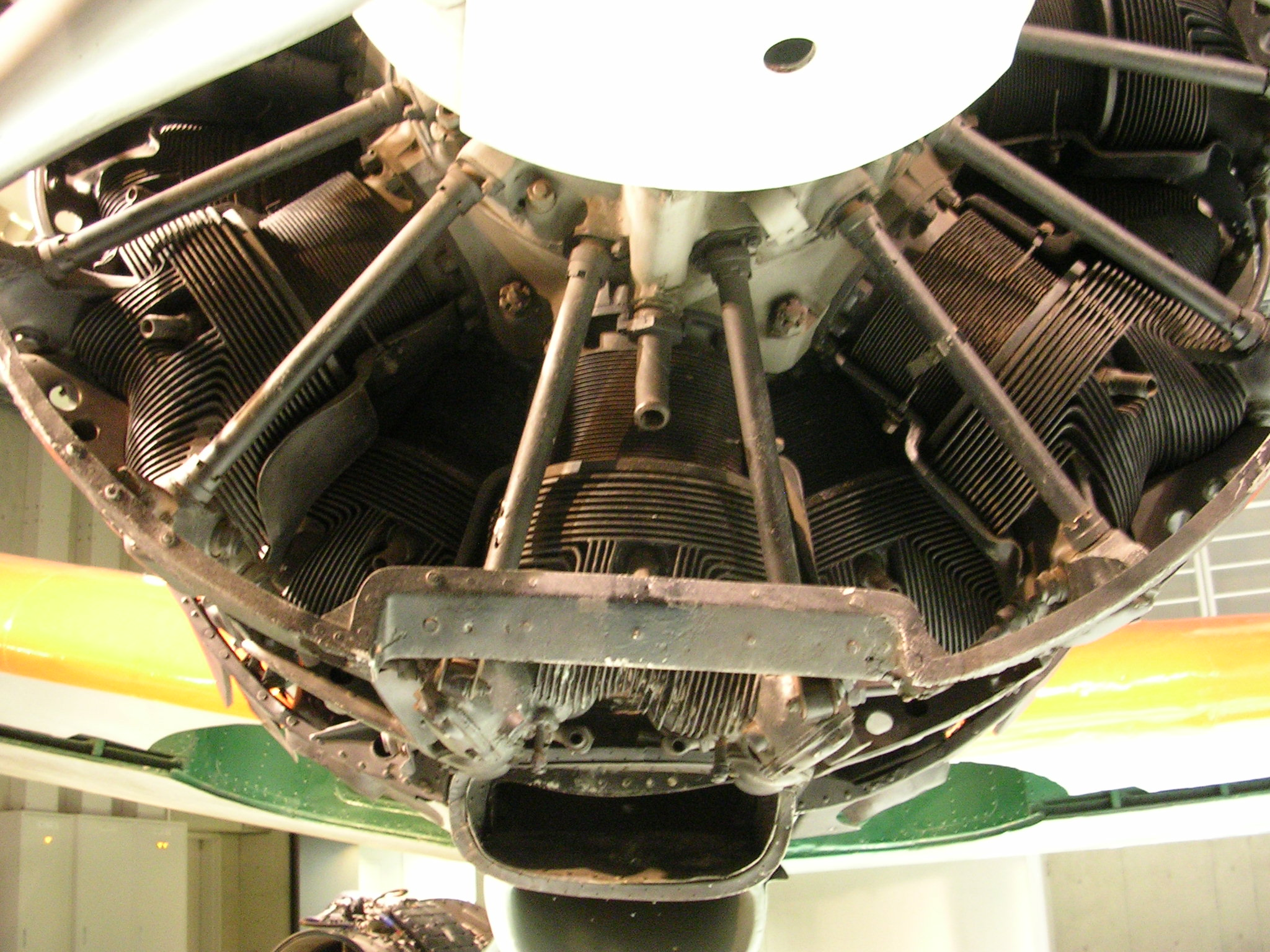 Closeup-shot of Nakajima Sakae's cylinders with a Zero fighter exhibited at National Science Museum of Japan